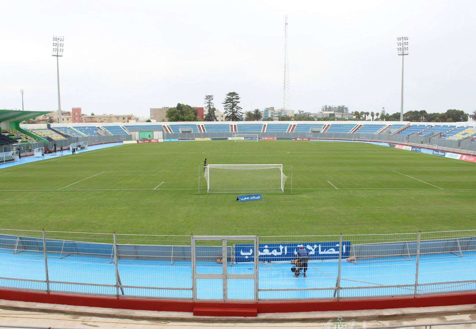 El Abdi Stadium in El Jadida city (Morocco)